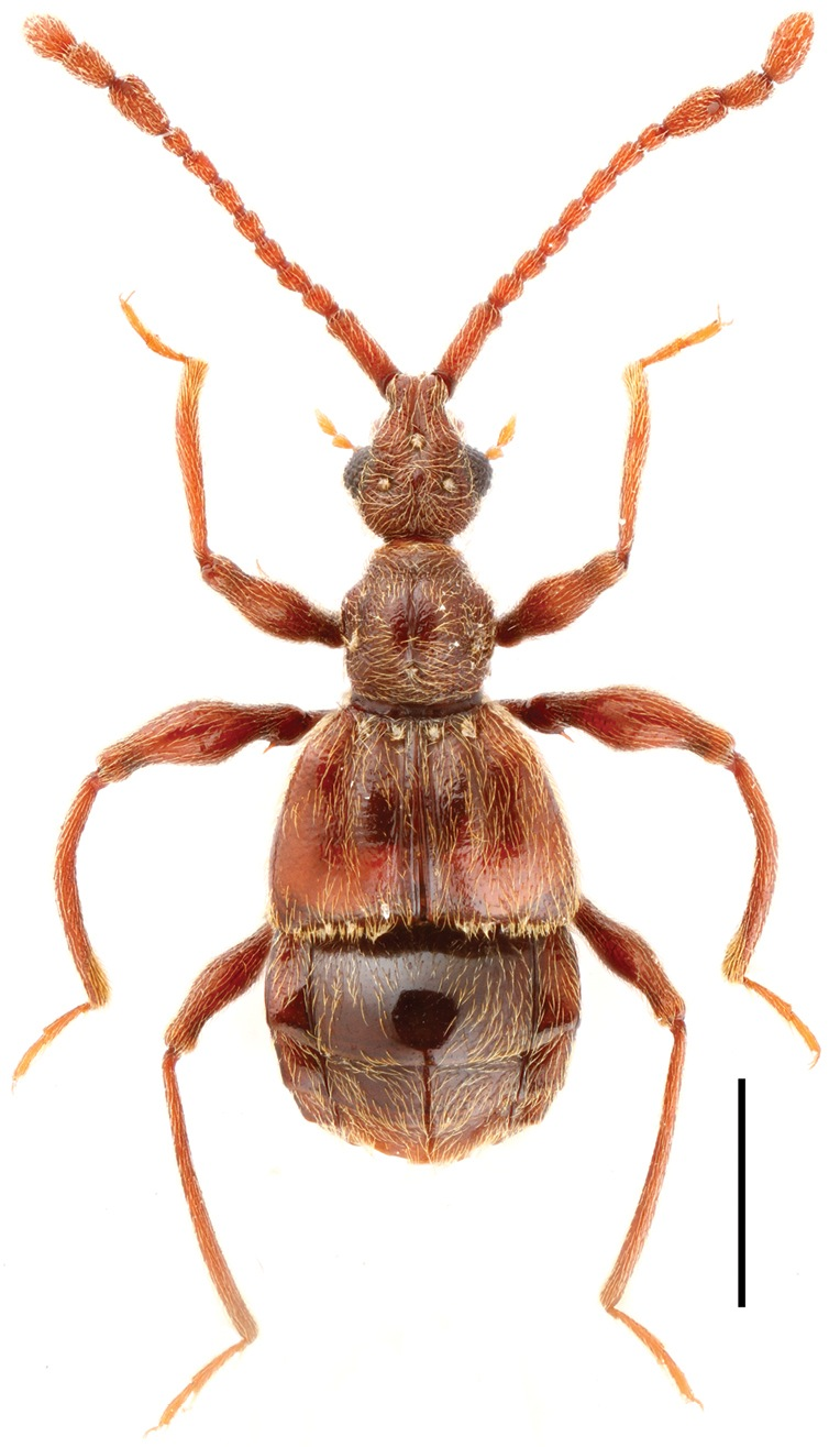 Male habitus of Pselaphodes wrasei. Scale: 1.0 mm.